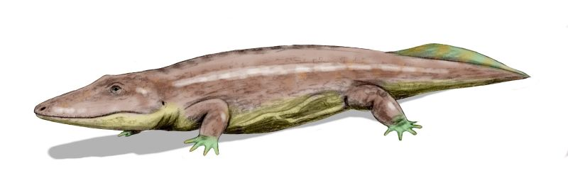 Parotosuchus sp., a Temnospondyli from the Early Triassic. Worldwide distribution from Russia to Antarctica. Pencil drawing